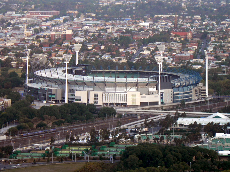 Photographer: Joe Bekker